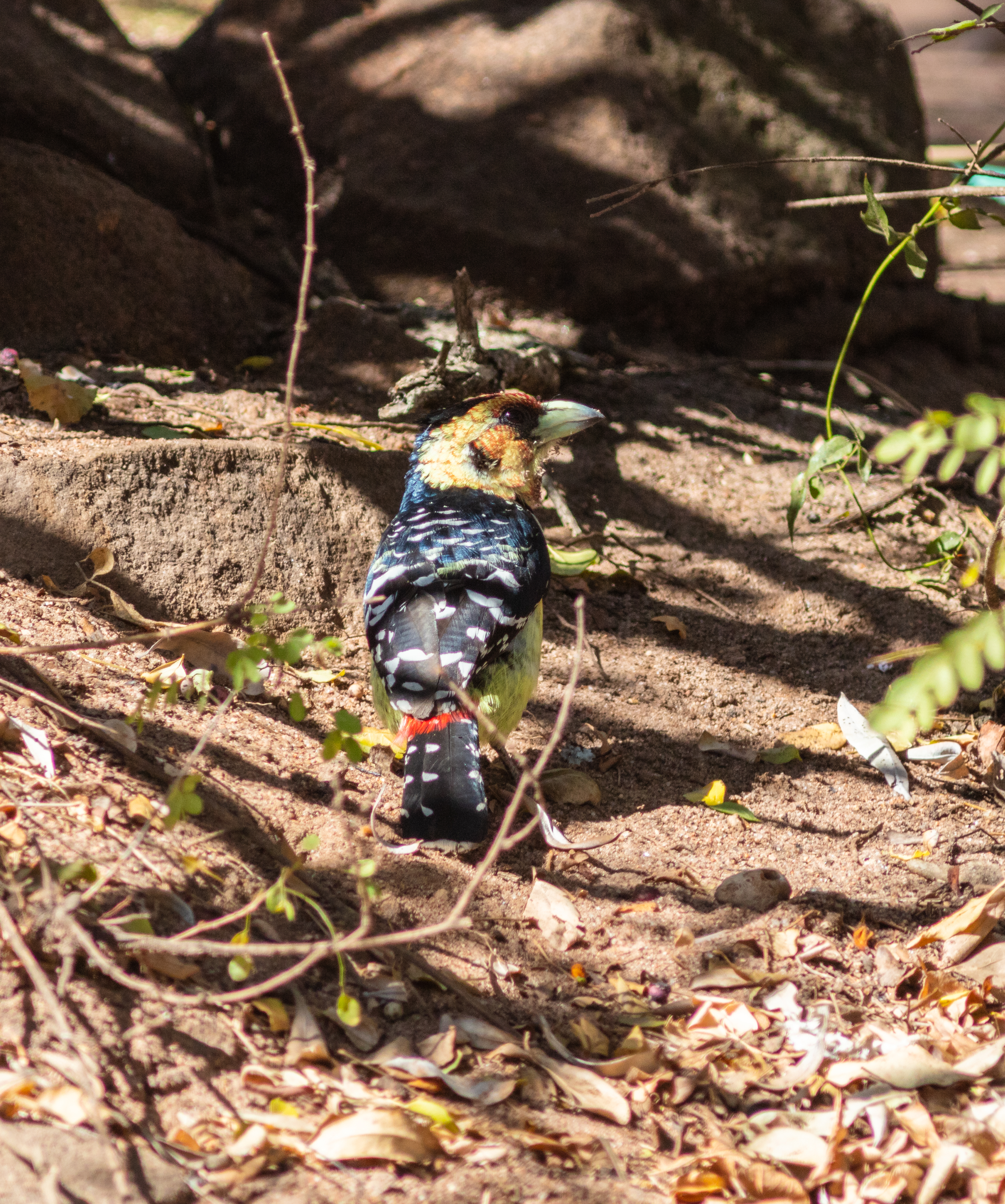 Crested Barbet (Trachyphonus vaillantii), Kruger National Park, South Africa